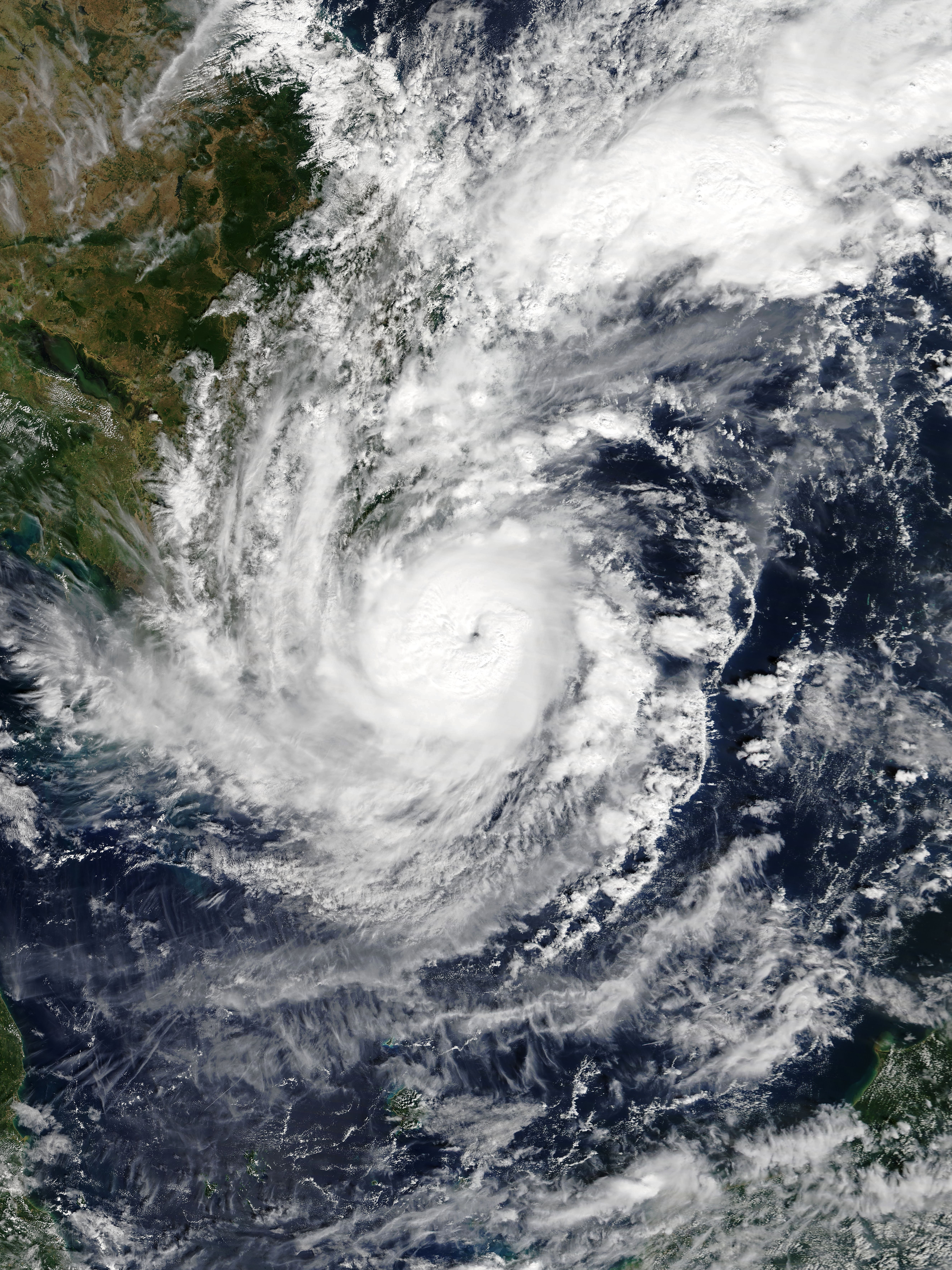 Severe Tropical Storm Usagi approaching the Mekong Delta of Vietnam at peak intensity on November 24, 2018.